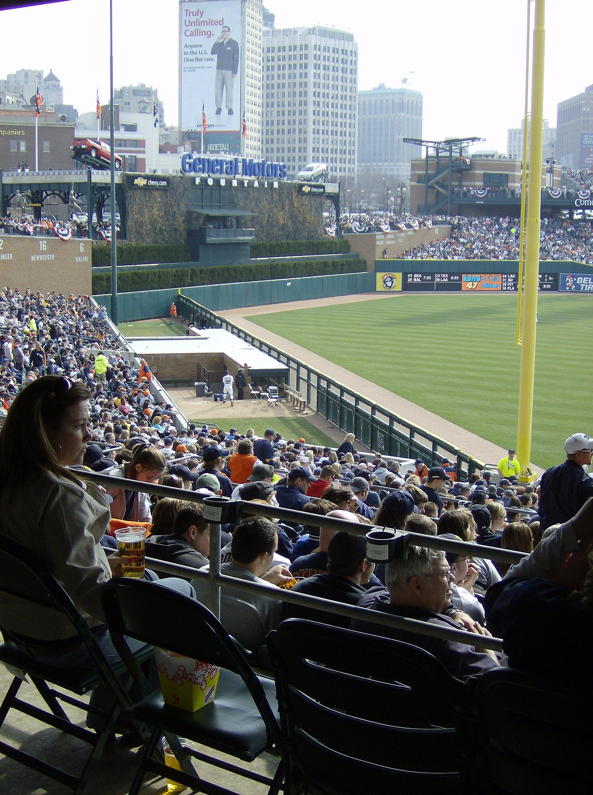 Comerica Park bullpen behind left field wall